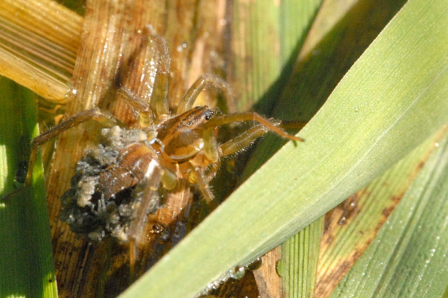 Pirata piraticus from Commanster, Belgian High Ardennes .